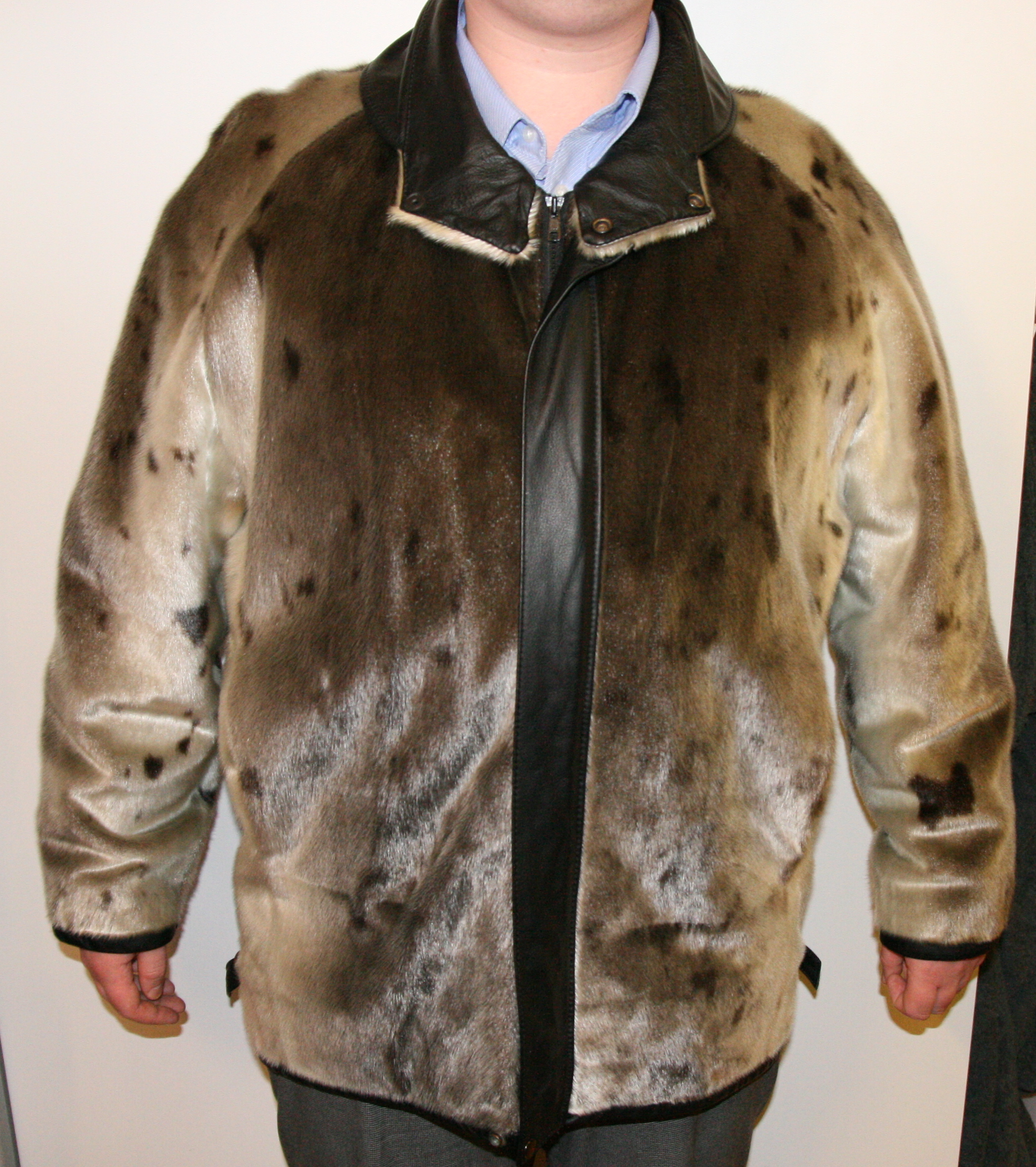 Seal skin coat